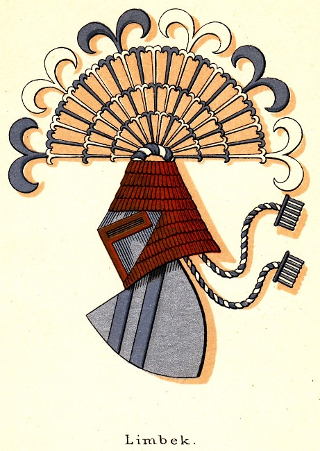 Coat of arms of the Limbek family